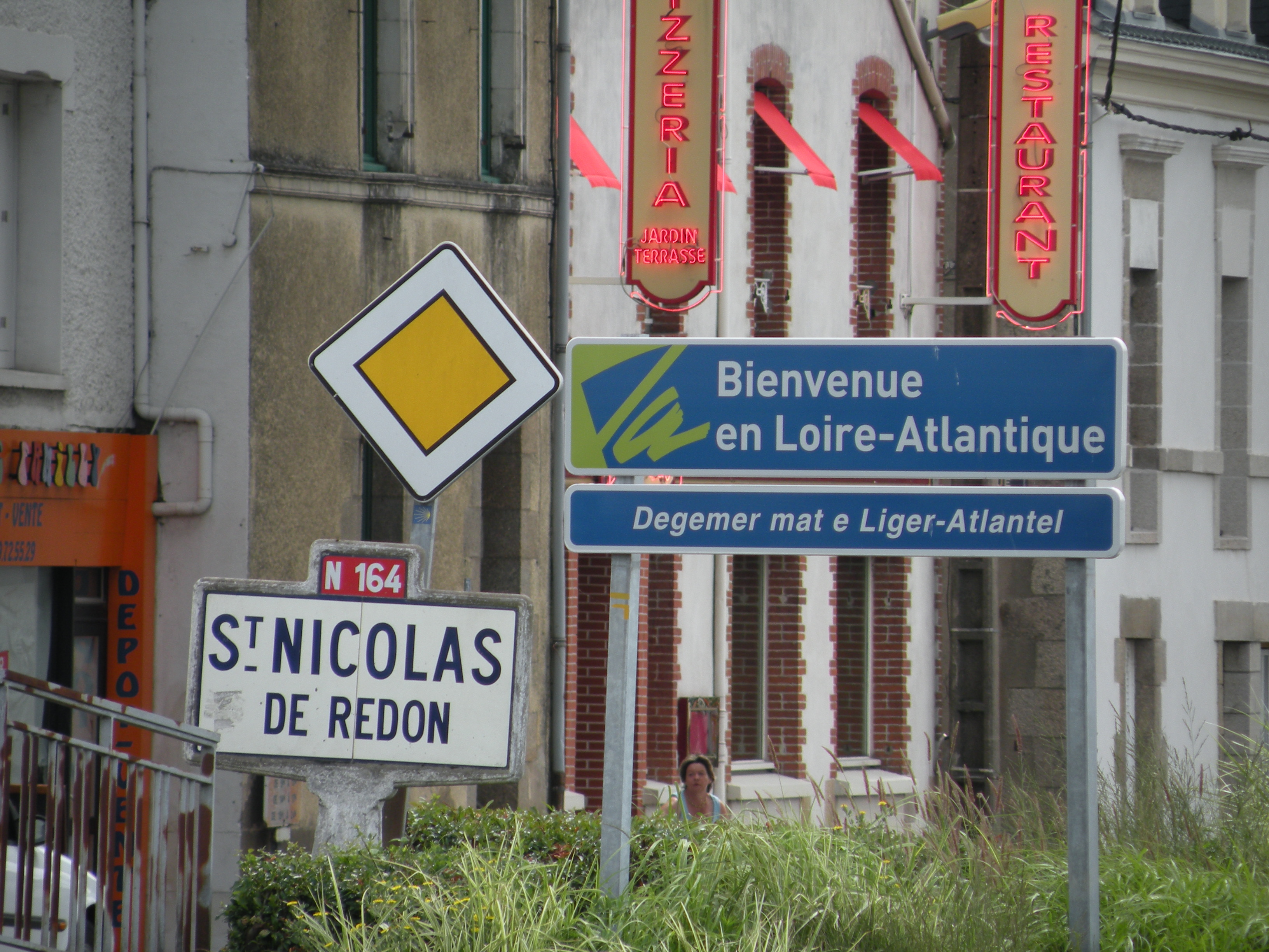 City limit sign of Saint-Nicolas-de-Redon